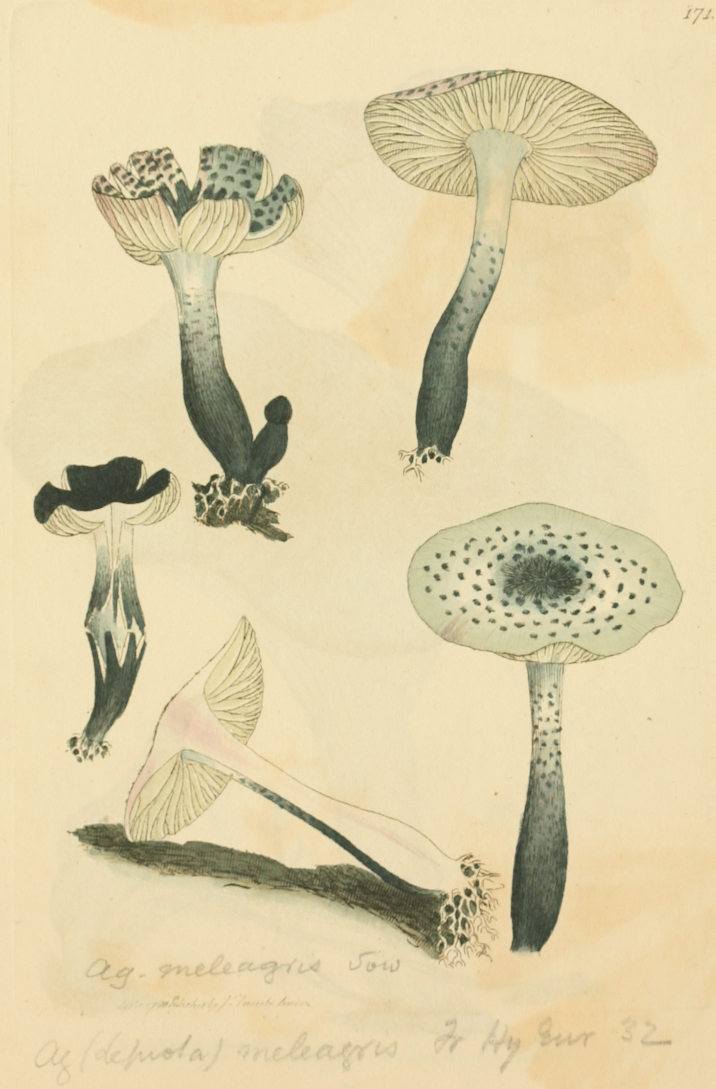 This is a plate from James Sowerby's Coloured Figures of English Fungi or Mushrooms.